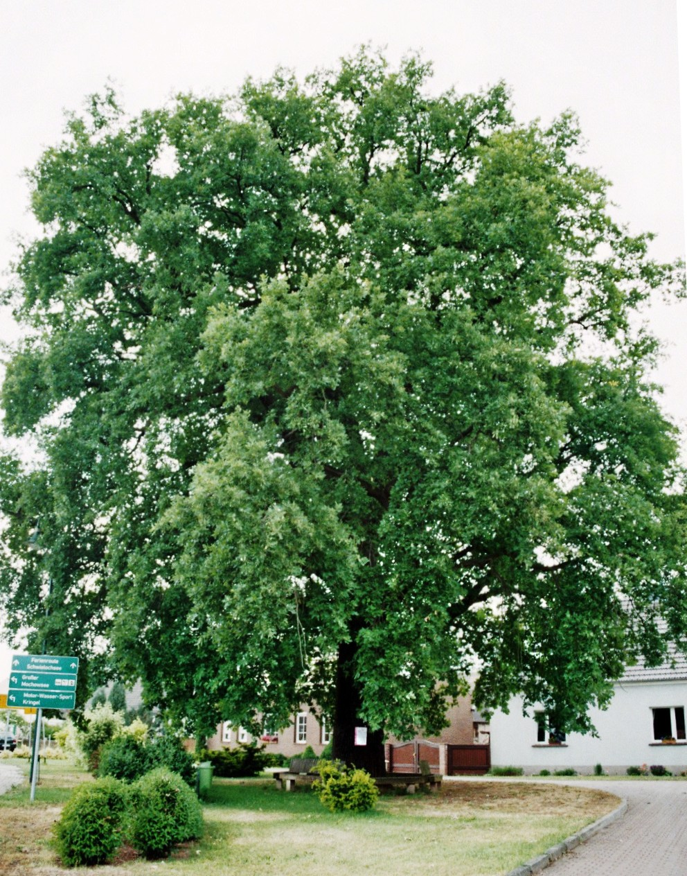 Kaiser-Wilhelm-Eiche (Emperor Wilhelm Oak) – a Quercus robur – in Lamsfeld, Schwielochsee, Landkreis Dahme-Spreewald, Brandenburg, Germany. The oak was plantet March 22 1887 in celebrating the 90th birthday of Wilhelm I of Germany.